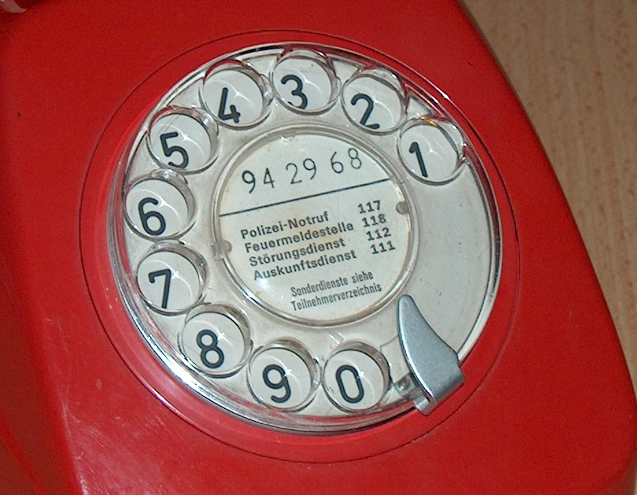 Dial of a Swiss telephone from the 1970's, showing the then-current abbreviated dialing numbers for emergency and other services: 117 (police), 118 (fire), 112 (technical fault clearing service), and 111 (directory assistance). 112 has since become a general emergency number, 111 got discontinued. The six-digit number above the abbreviated dialing numbers was the user's telephone number (without the area code). Switzerland has since changed to seven-digit numbers and later to ten-digit numbers always including the former three-digit area code.